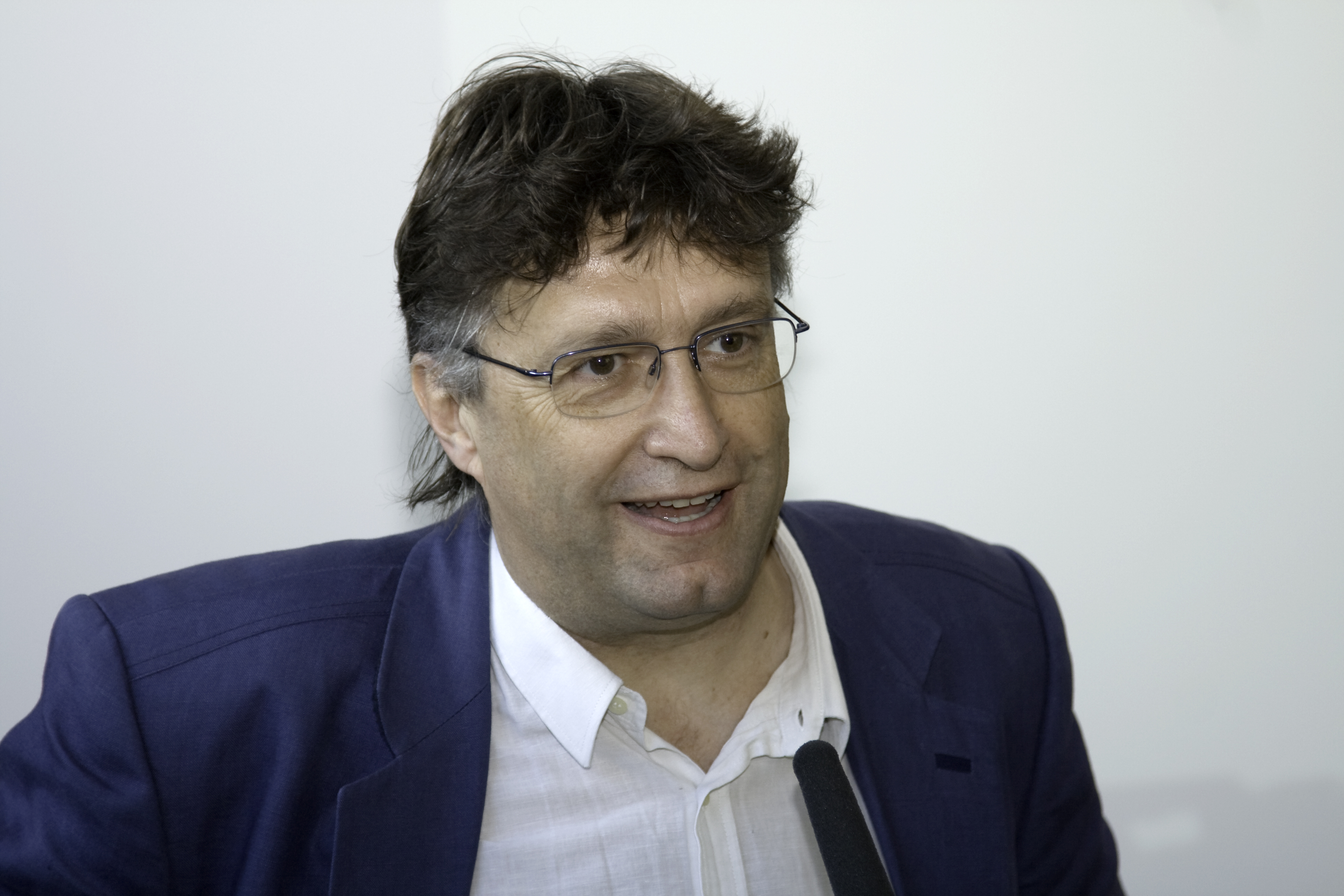 Riccardo Dello Sbarba